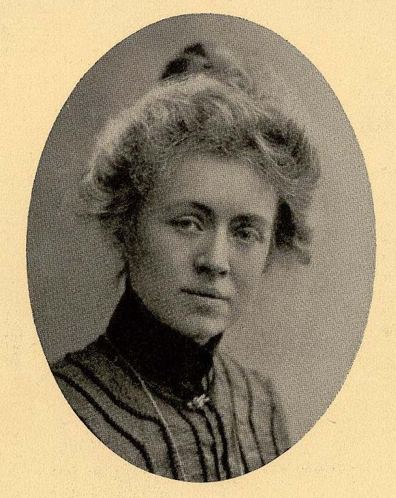 photograph of the Swedish author Frida Stéenhoff